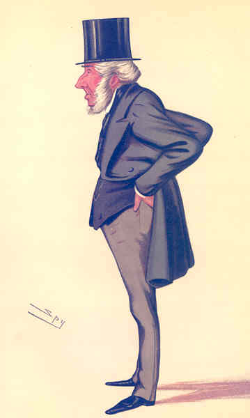 Caricature of The Rt Hon John Jellibrand Hubbard MP. Caption read "old Mother Hubbard".